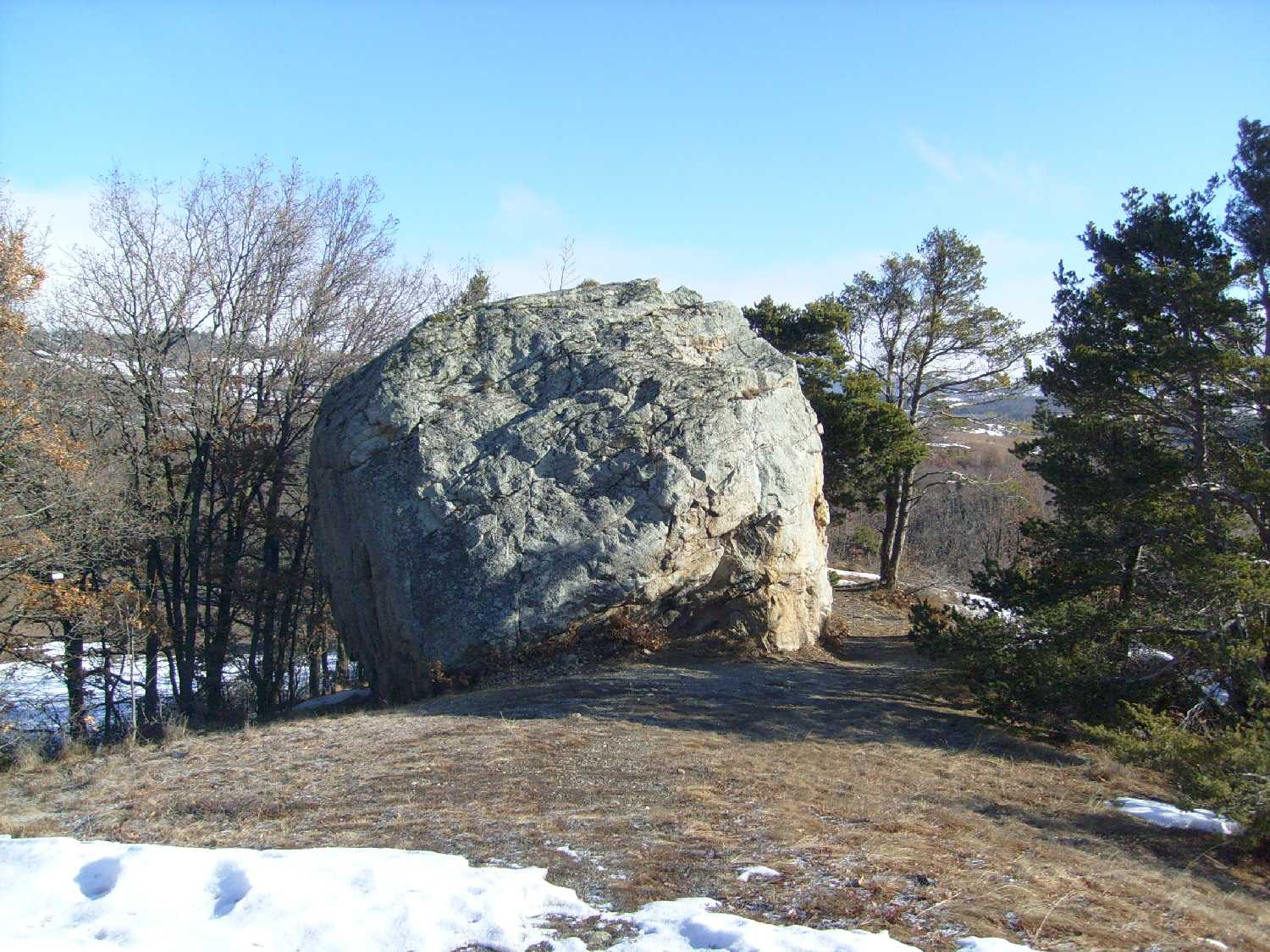 Glacial erratic put down other the top of lateral moraine of Durance glacier during the last glacial period( Gap, Hautes-Alpes, France)